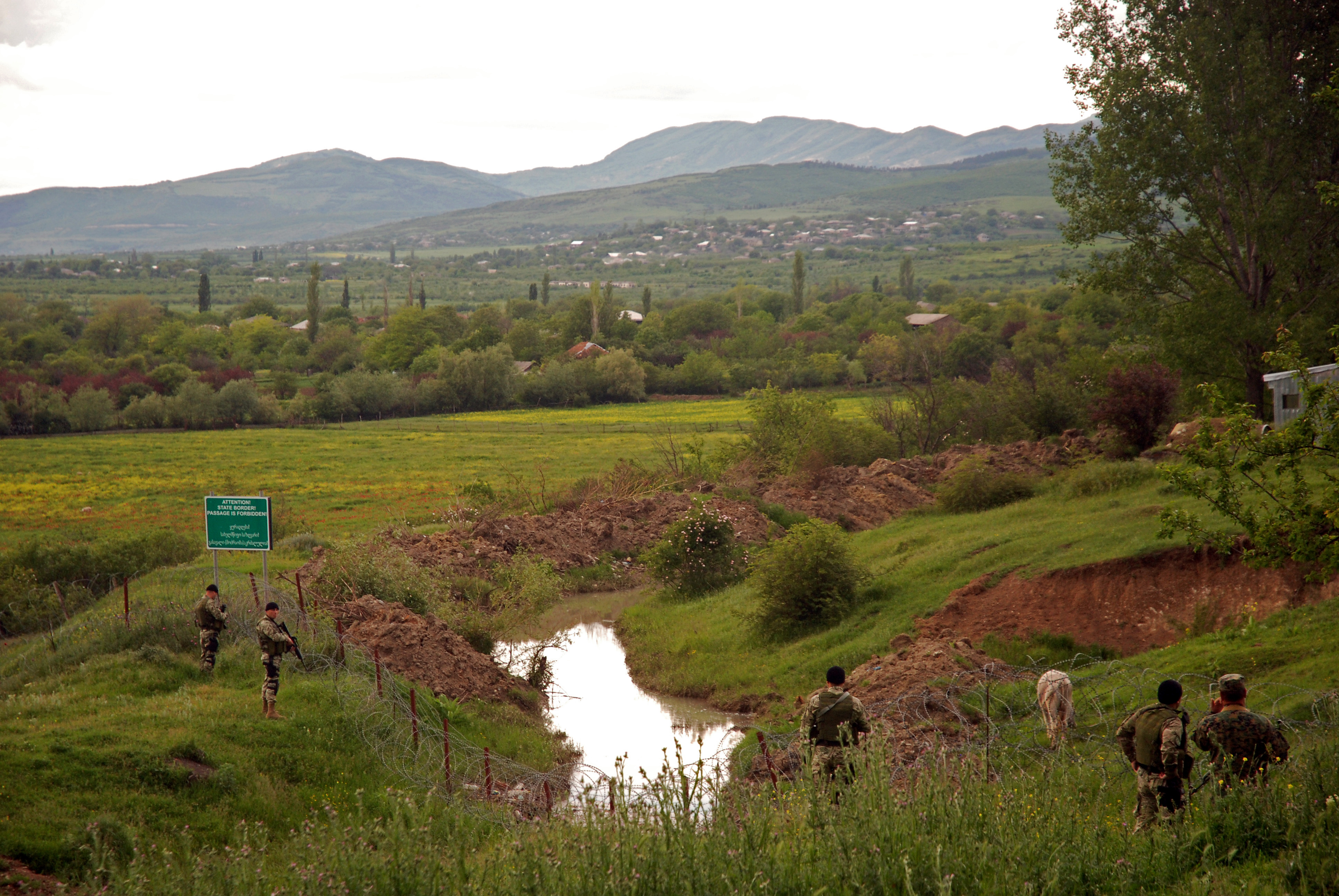 Borderization of the Administrative Boundary Line (ABL) South Ossetia at Khurvalleti: Russian and South Ossetian troops have installed barbed wire fences separating villagers from their land. Guarded by Georgian Police in picture.